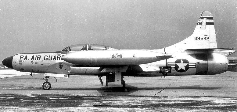 103d Fighter-Interceptor Squadron Lockheed F-94C-1-LO Starfire 51-3562